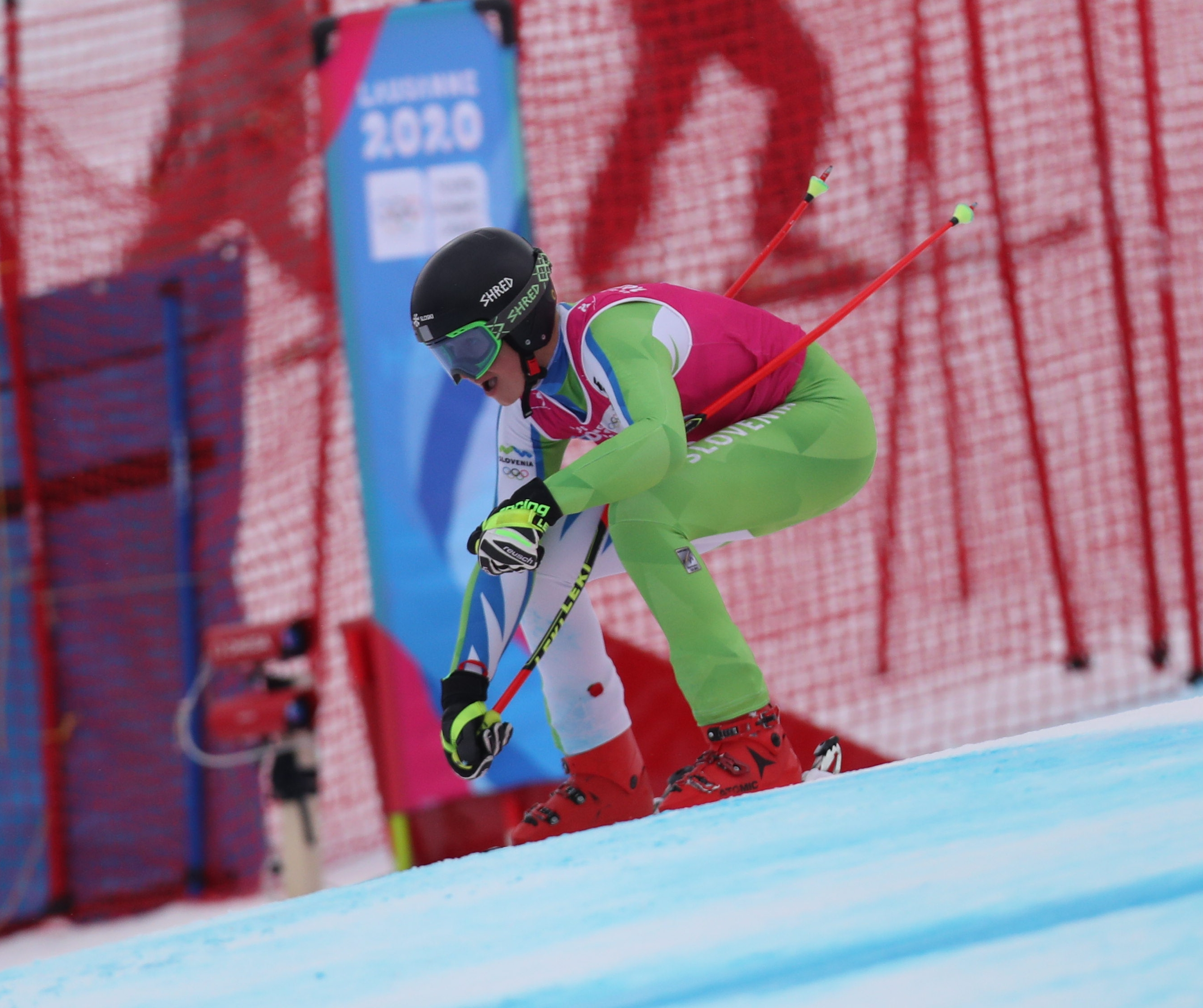 Men's Super G at the 2020 Winter Youth Olympics in Lausanne